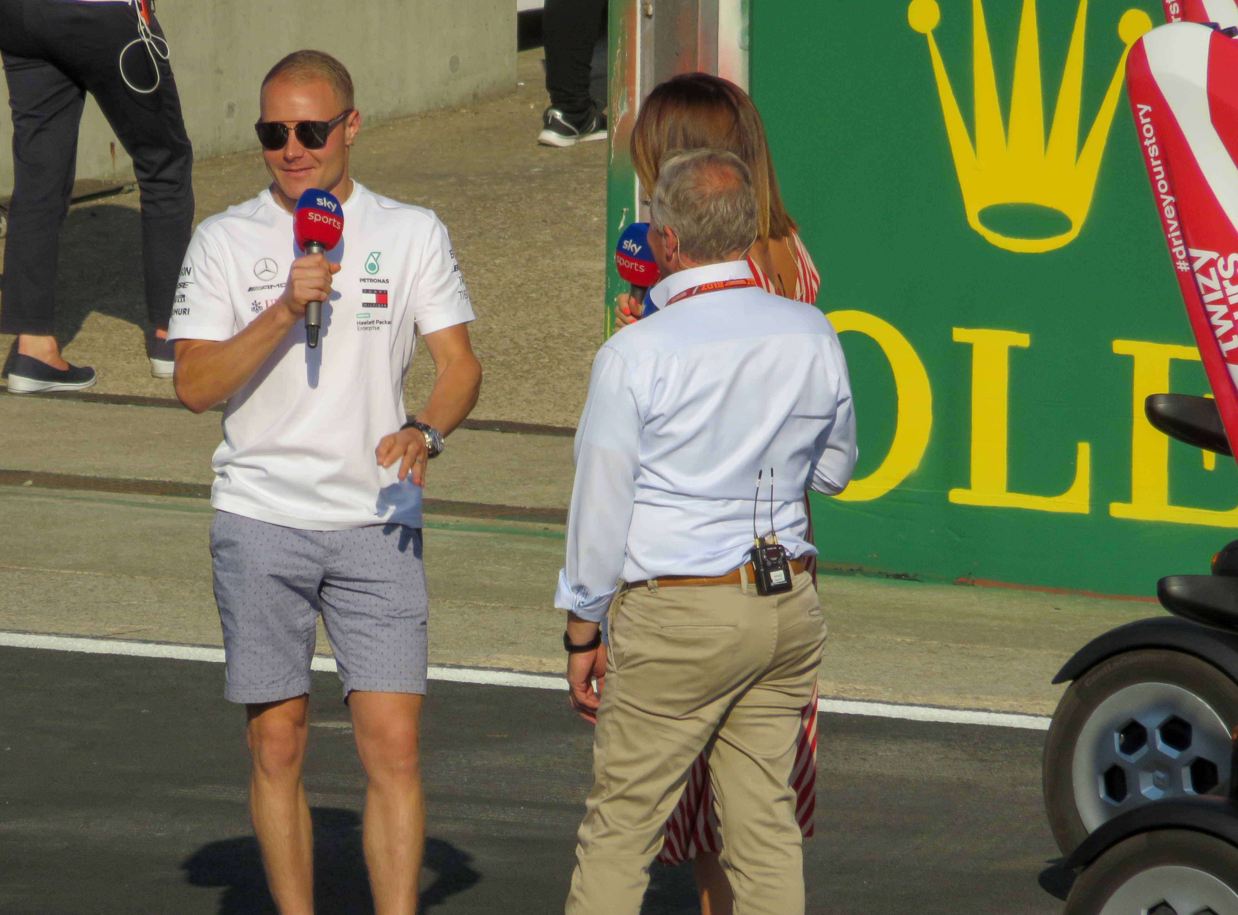 Valtteri Bottas, The Sky F1 Show Live, British GP 2018